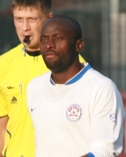 Jerry-Christian Tchuissé, Cameroonian and Russian footballer